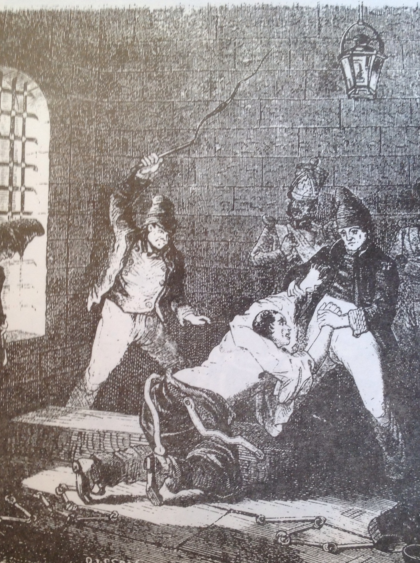 The Bastonnade was a common punishment in the Bagne de Toulon